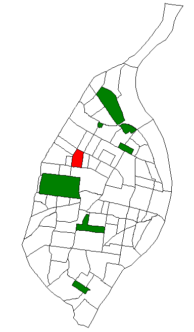 Map of St. Louis neighborhood #51